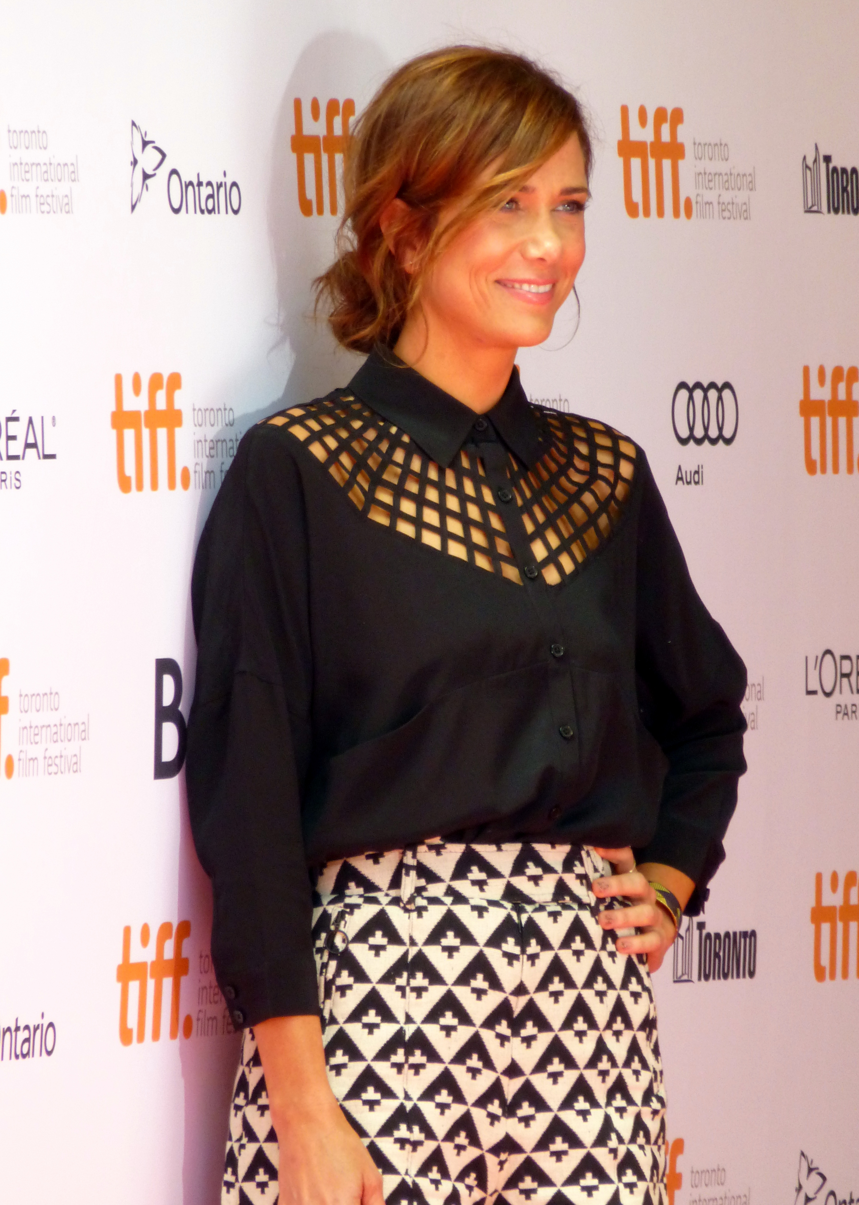 Kristen Wiig at the premiere of Hateship Loveship, Toronto Film Festival 2013